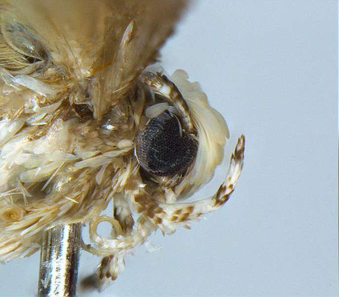 moth species